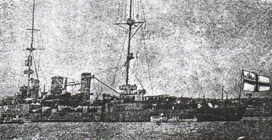 A photomontage of cruiser «Hetman Bohdan Khmelnytskyi» or «Admiral Nakhimov» under the Ukrainian naval flag. It is originaly taken from a photo of the Soviet cruiser «Krasnyi Krym».